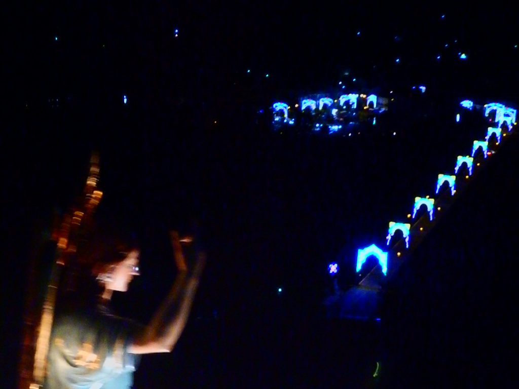 the celebrations of the second Sunday of July in honor of the Guardian Angel, Saint patron of Fondachelli-Fantina, Sicily